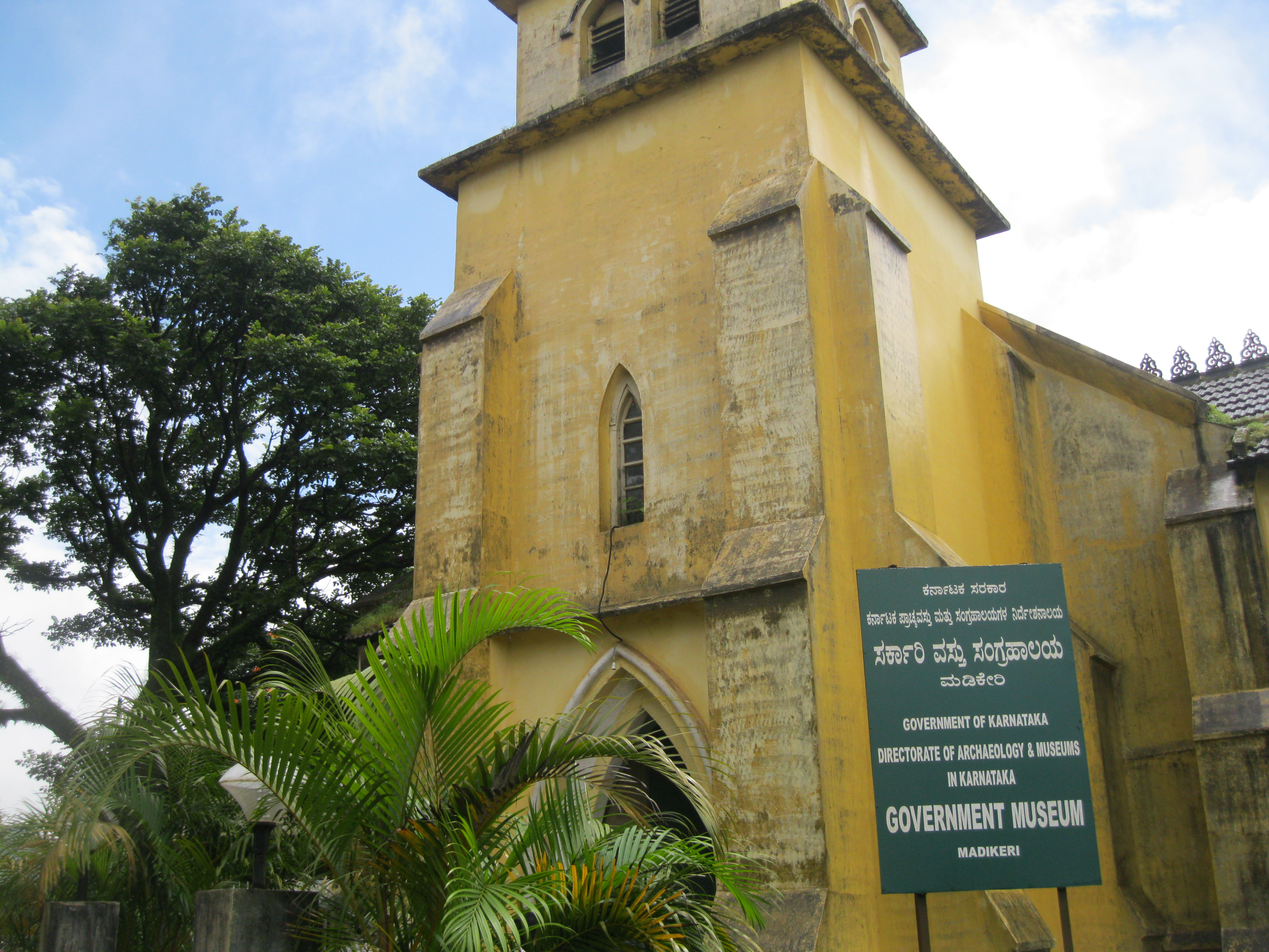 Madikeri government museum